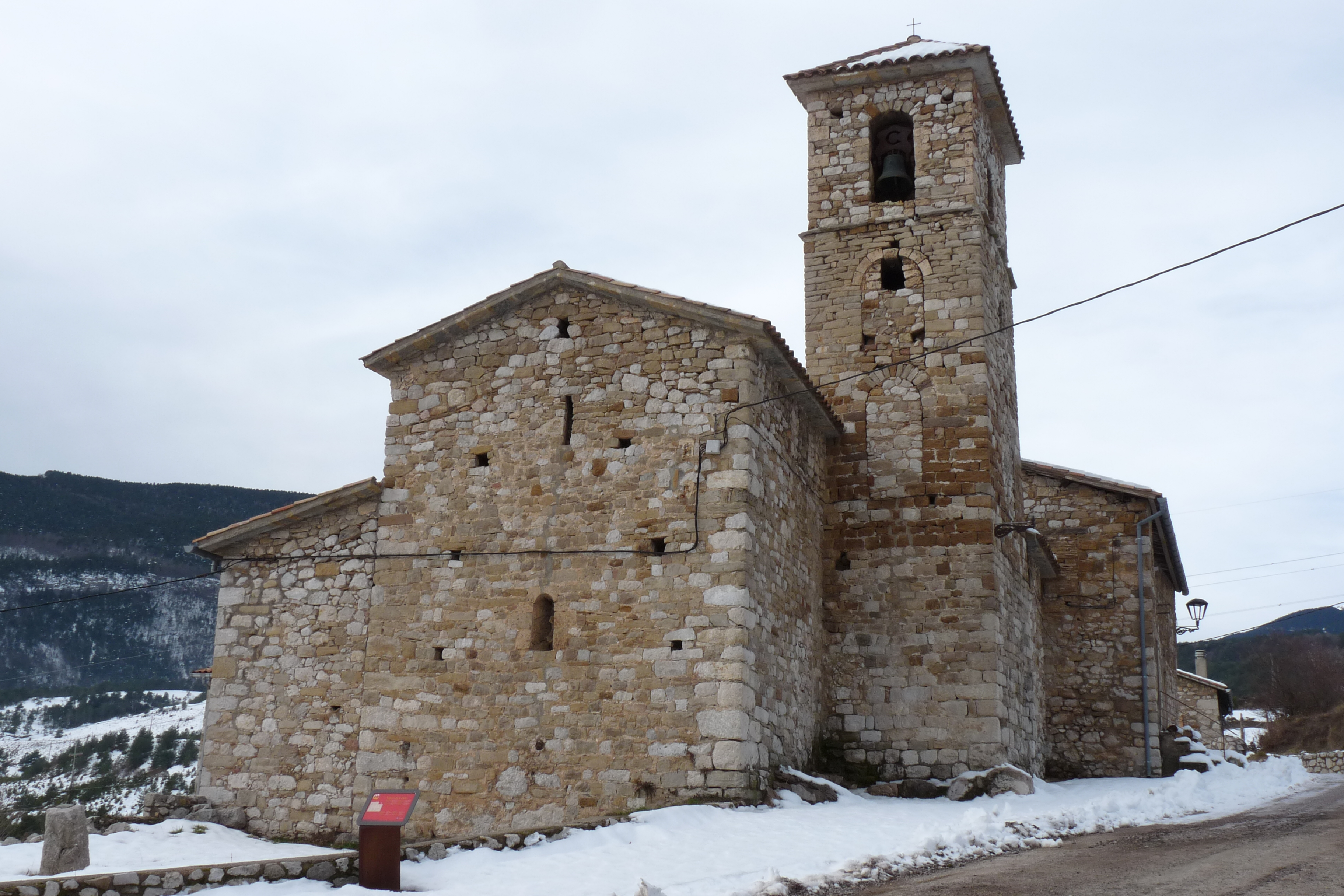 Romanic church of Santa Cecília, Fígols (El Berguedà)